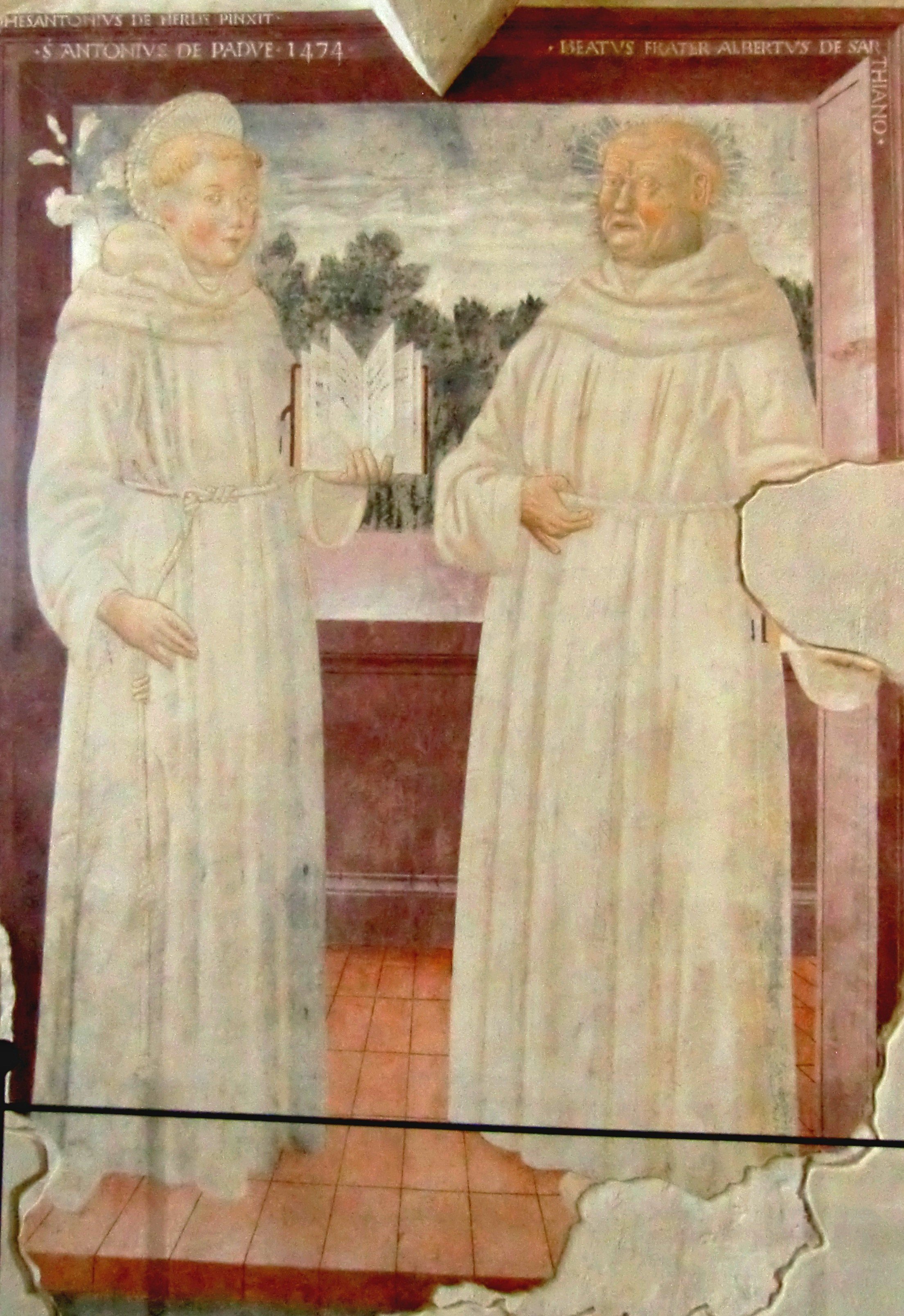 Giovanni Antonio Merli, San Antonio da Padova and the Blessed Alberto da Sarthiano, fresco, 1474, Novara, church of San Nazzaro della Costa